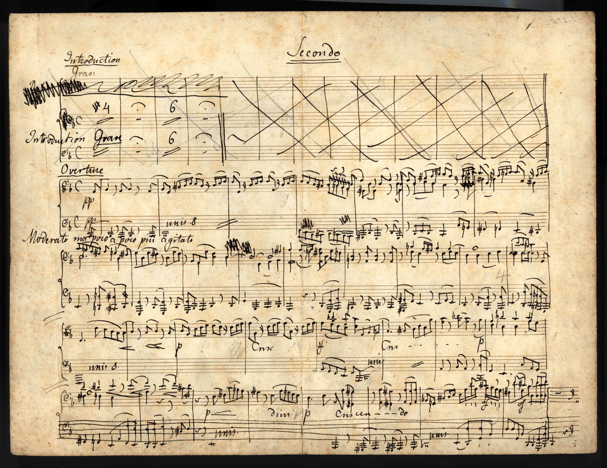 "Elijah", Introduction and overture, arranged for piano duet. Manuscript copy in Mendelssohn's handwriting. Page 1 of 7.